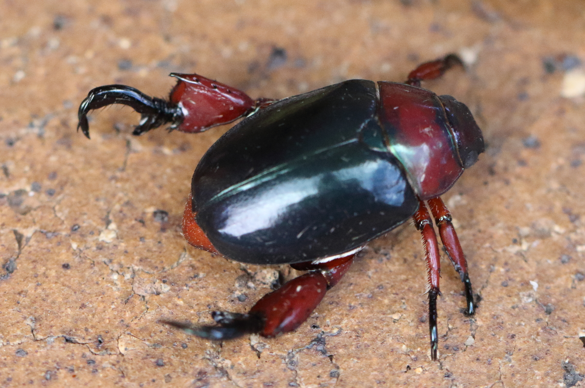 Black Nail Beetle (Repsimus manicatus). Species of insect.